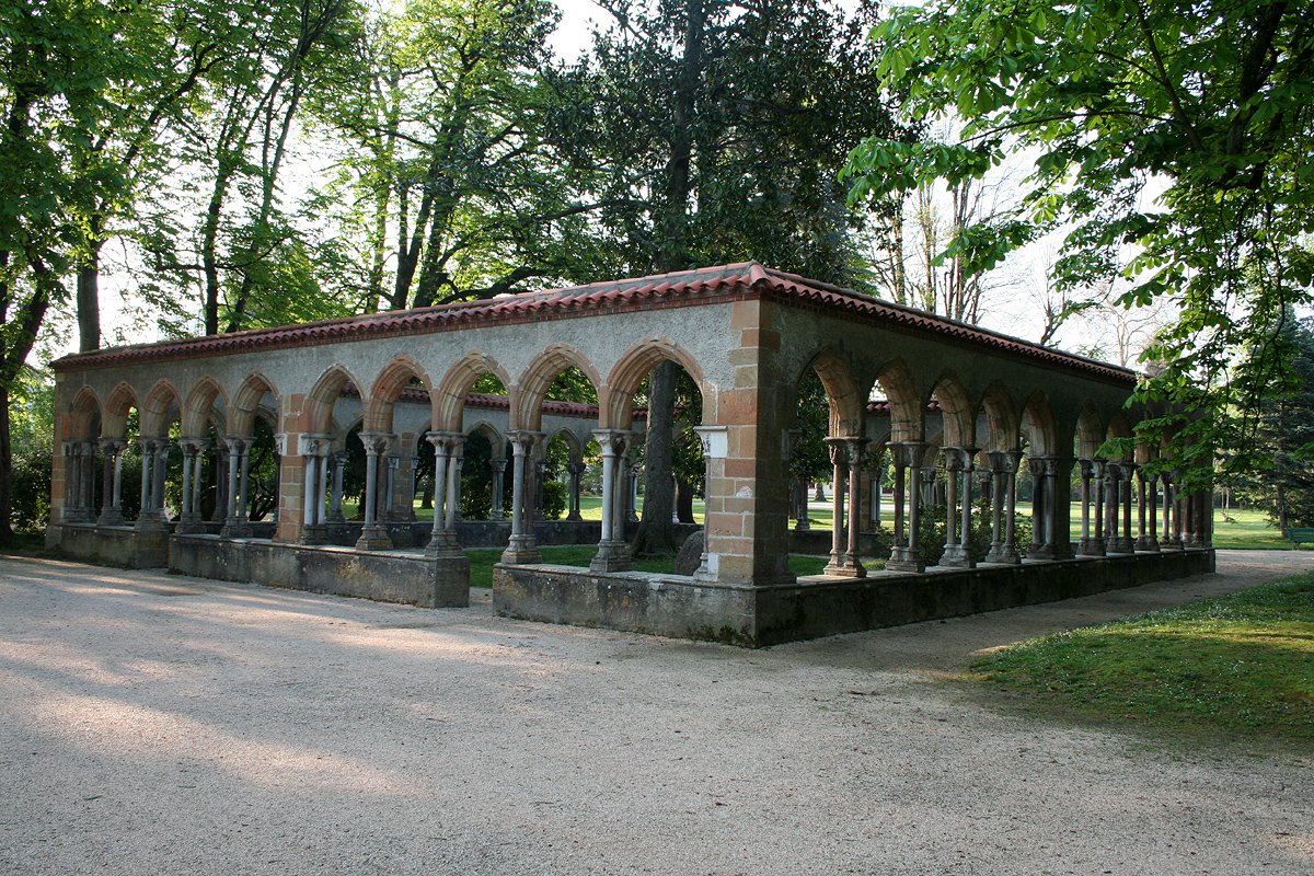 Cloister of the Saint-Sever-de-Rustan abbey, now in the Jardin Massey of Tarbes (Hautes-Pyrénées, France)